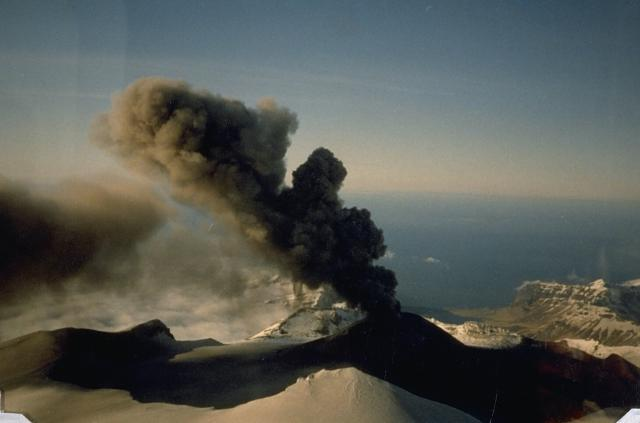 A dark, ash-rich eruption column rises about 1 km above a cinder cone in Akutan caldera on June 2, 1988, and drifts to the NW.